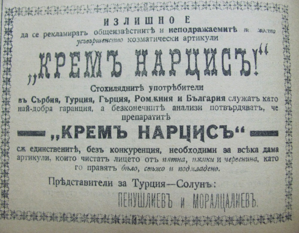 Krem Nartsis Add - Narodna Volya 7 February 1909